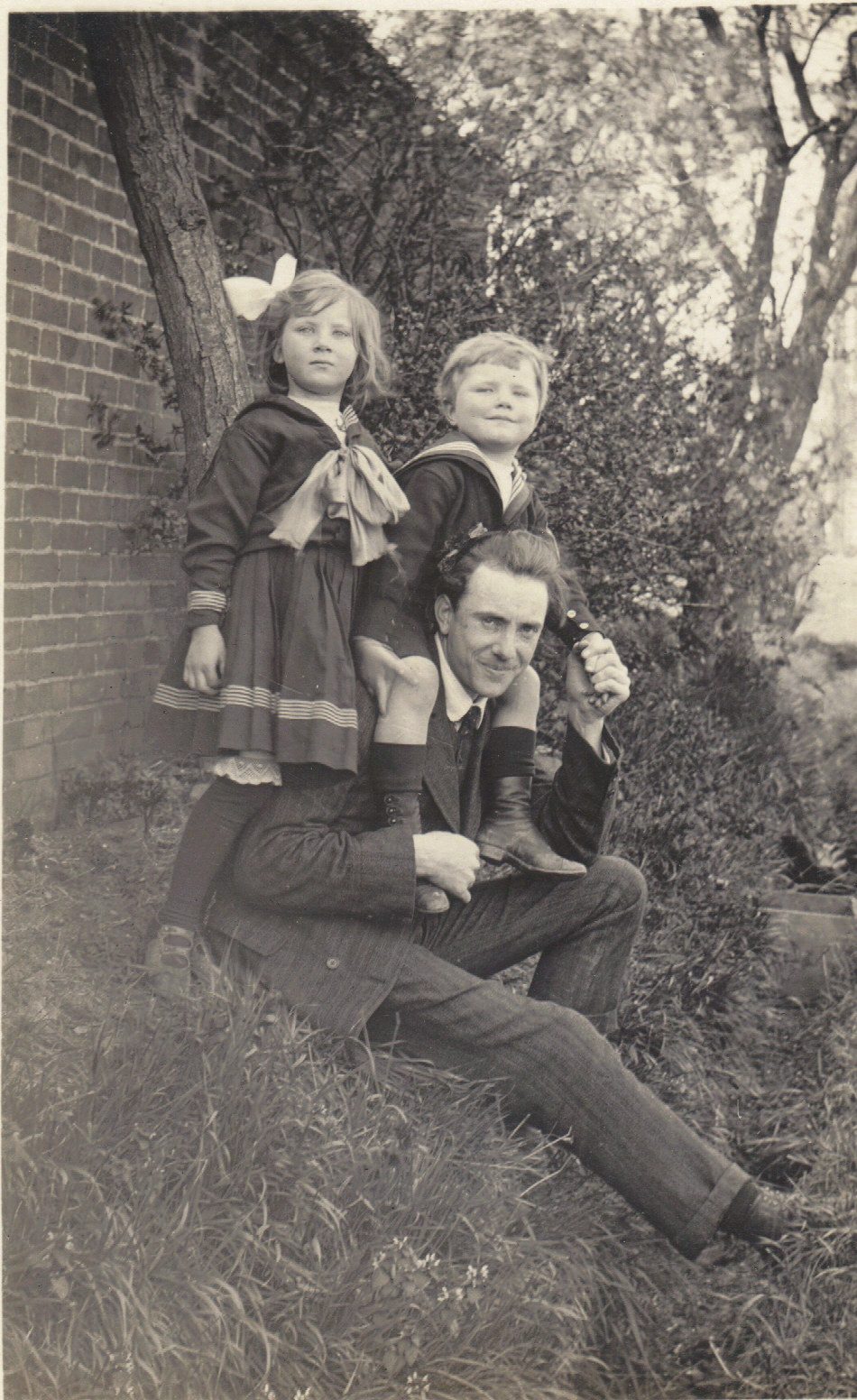 Photographic Portrait of Charles Kennedy Scott with young family including C.W.A. Scott his son, in 1908.